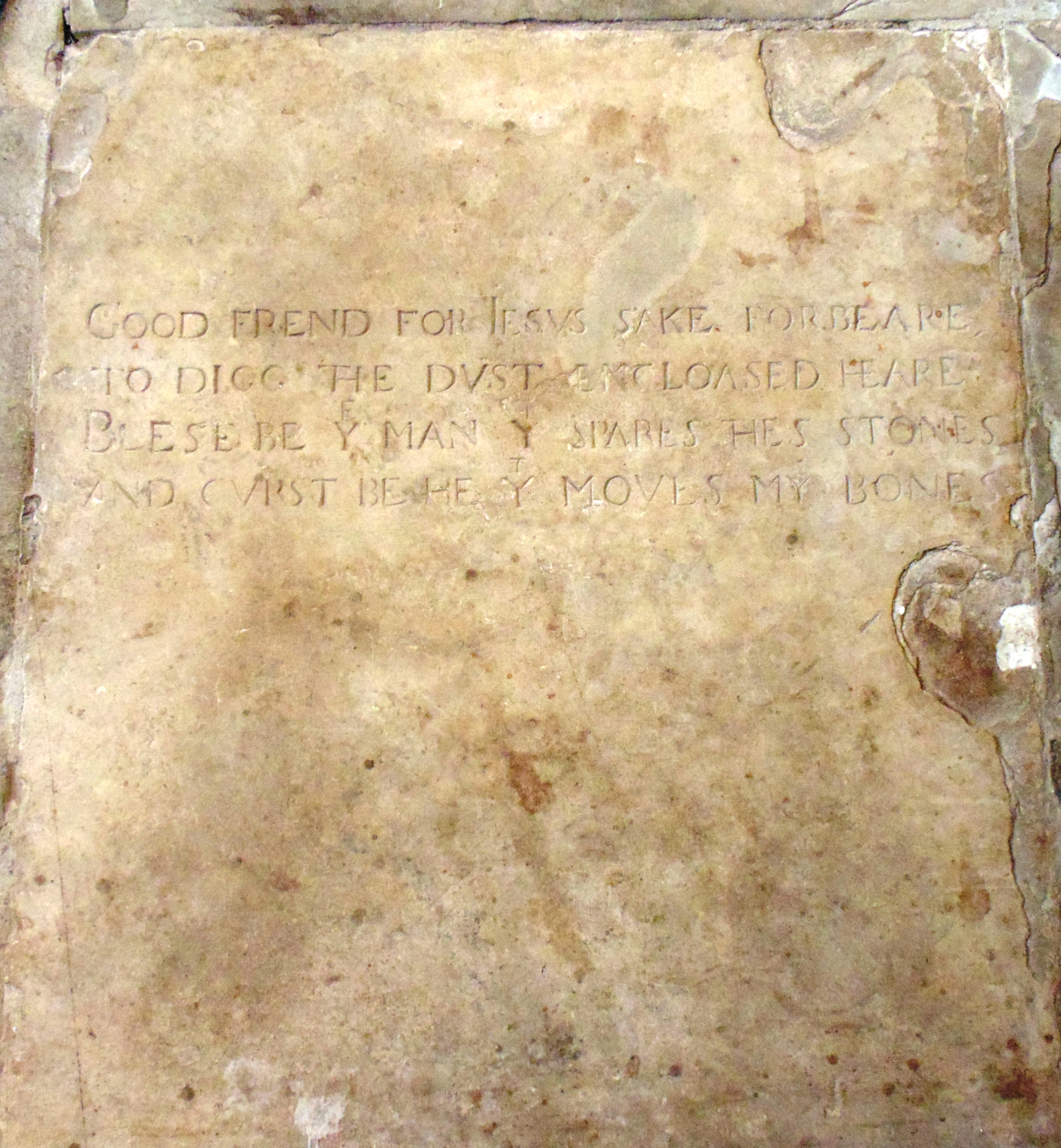 Photograph of William Shakespeare's grave in the Holy Trinity Church of Stratford.